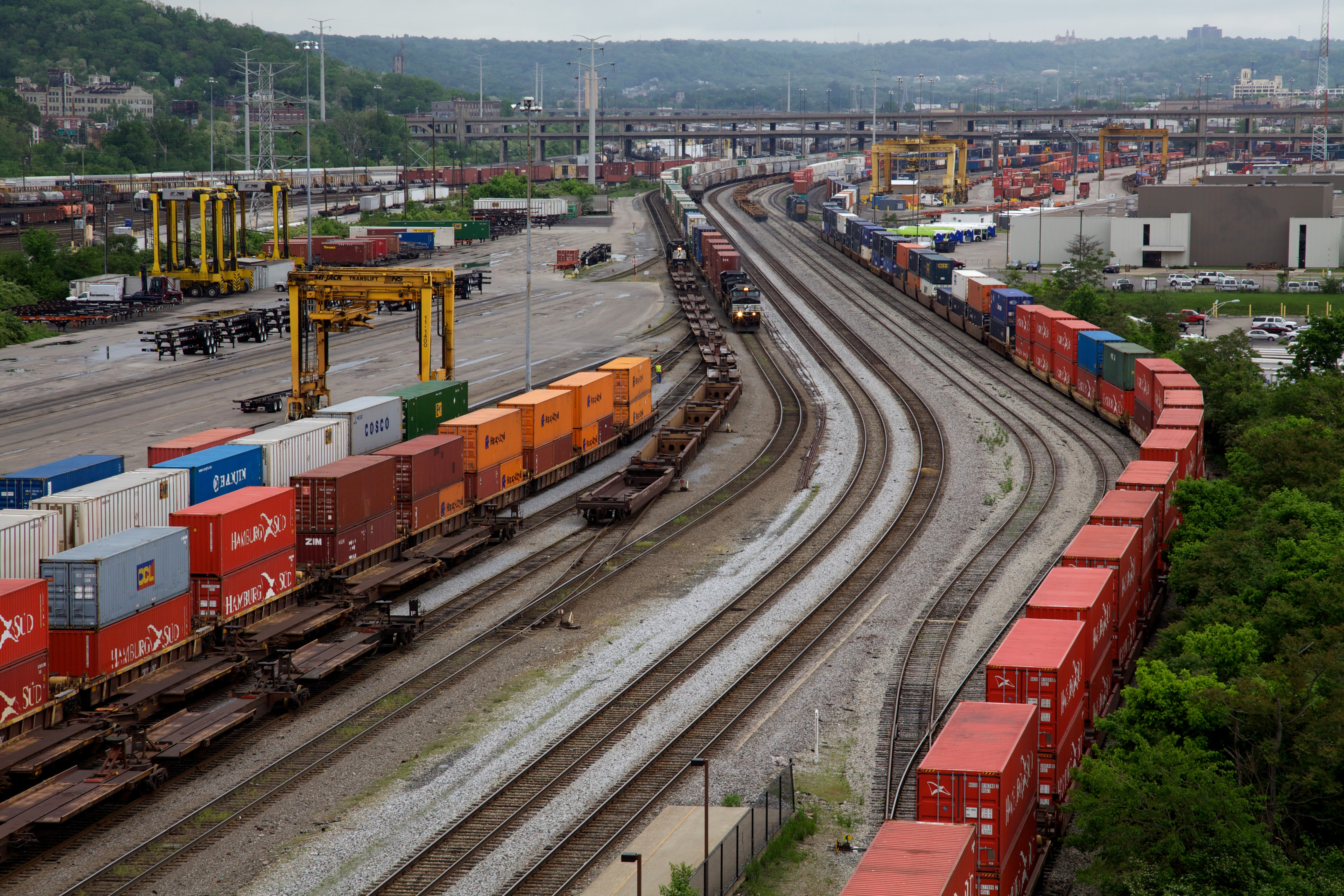 Railyard behind the Cincinnati Union Terminal